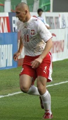 Mariusz Lewandowski in Poland national football team